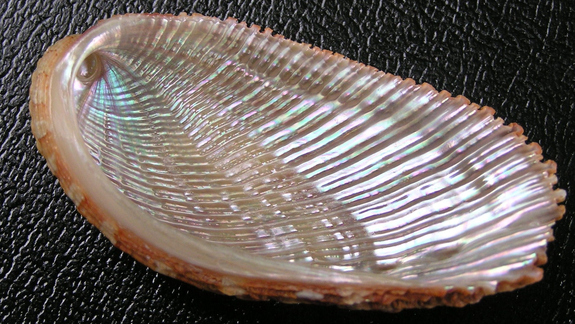 Haliotis elegans Koch in Philippi, 1844; family Haliotidae; Western Australia